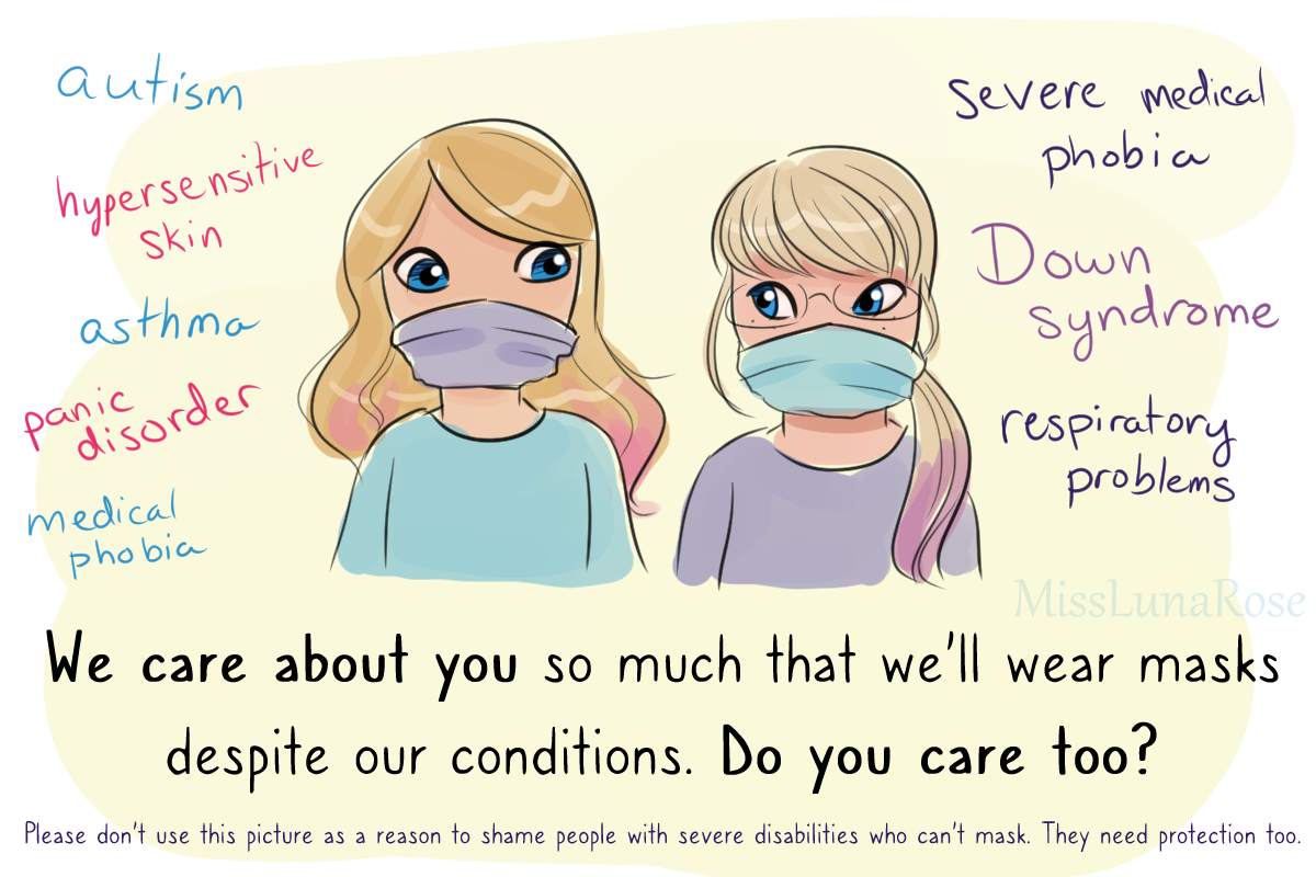 This drawing by an autistic artist refutes the claim that people with disabilities cannot possibly wear masks during the COVID-19 pandemic. While a small percentage of disabled people cannot wear masks, many can do so, especially when they are motivated by its importance.